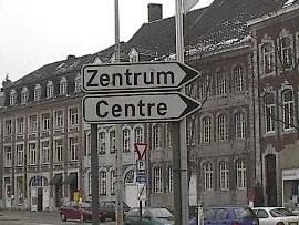 "Linguistic facilities" for French speakers in Eupen, a German-speaking municipality in Belgium.